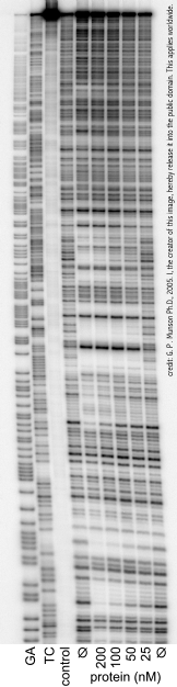 George P. Munson, Ph.D.